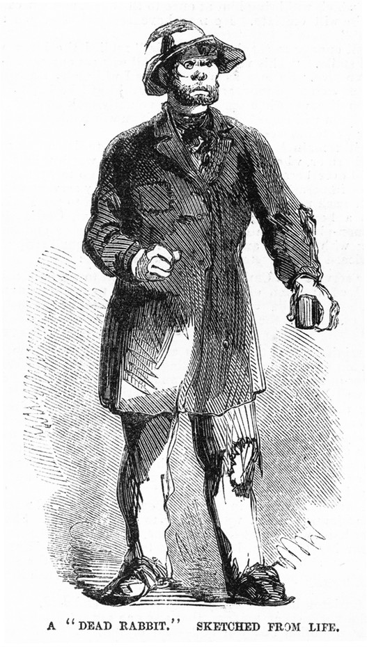 Dead Rabbit gang member holding a brickbat as a weapon in July 1857 included within newspaper "Four scenes from the riot in the Sixth Ward, New York City between the "Bowery Boys" and the "Dead Rabbits" showing: women and men throwing brickbats down on the police, a "Dead Rabbit," a "Bowery Boy," and a "Dead Rabbit," falling at the feet of policeman Shangles" Medium: 1 print : wood engraving, with text.